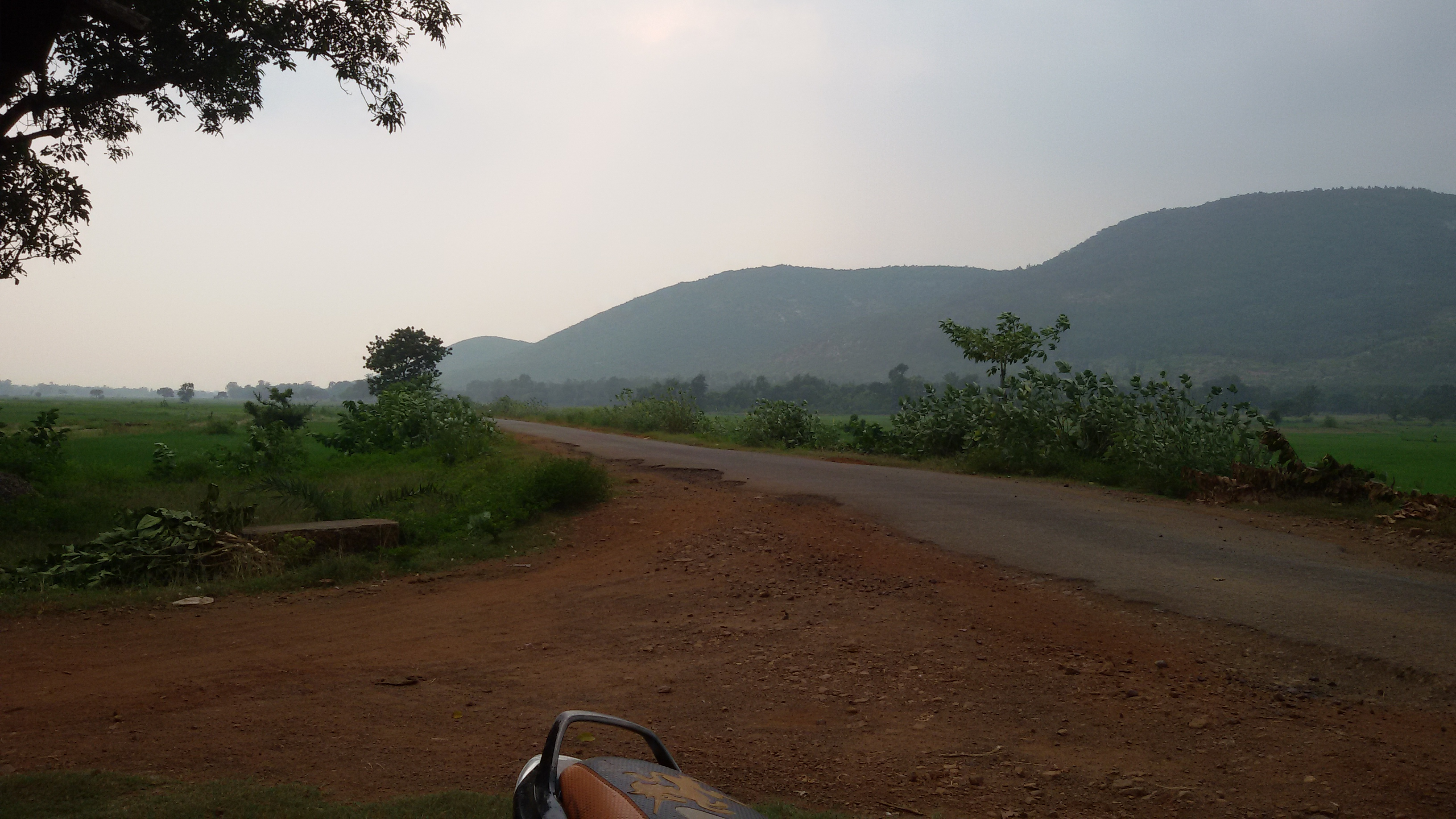 county road at Gobindapur, Hatadihi county, Kendujhar district, Odisha, India